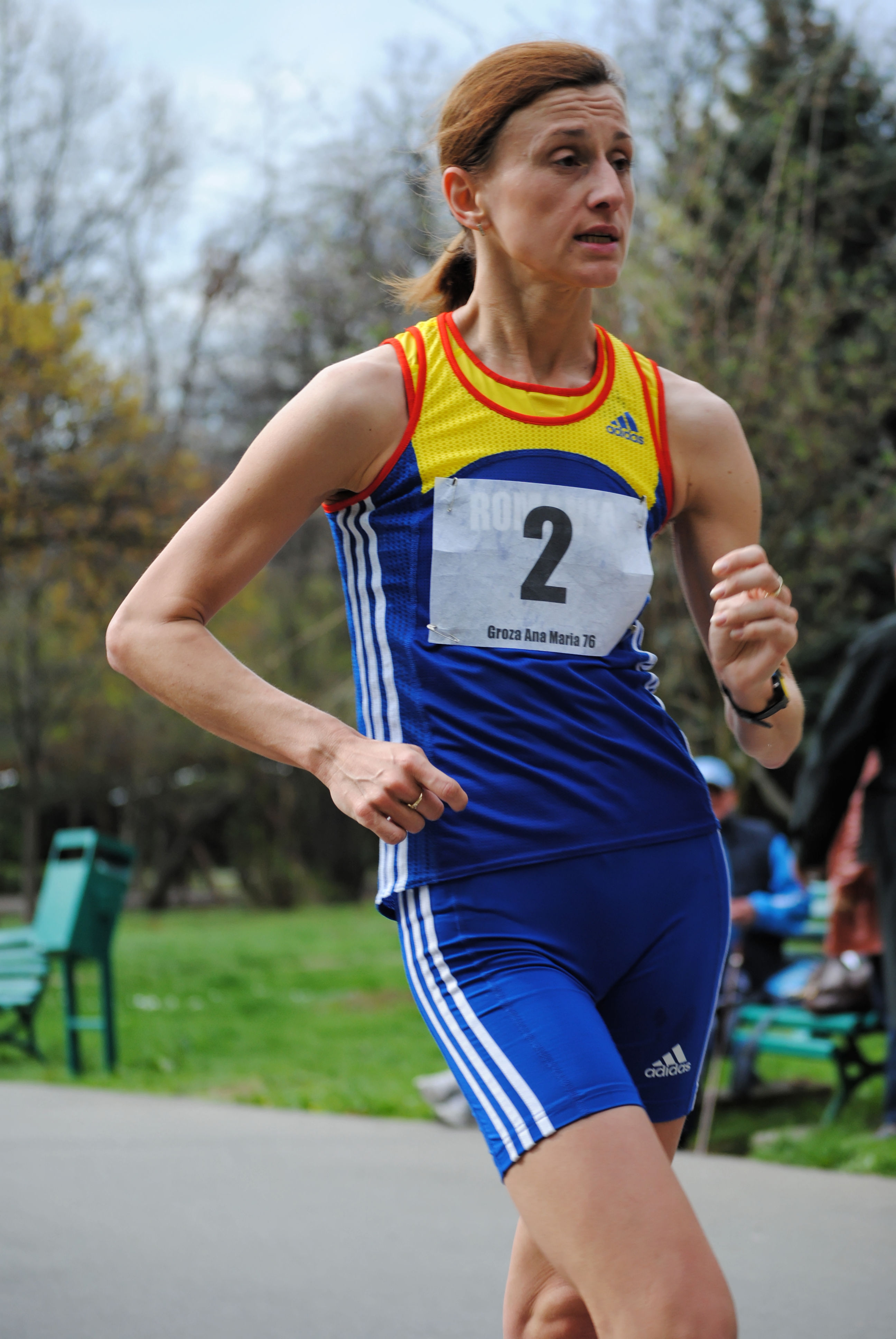 Ana Maria Groza during Balkan Race Walking Championship, Bucharest, April 09, 2011